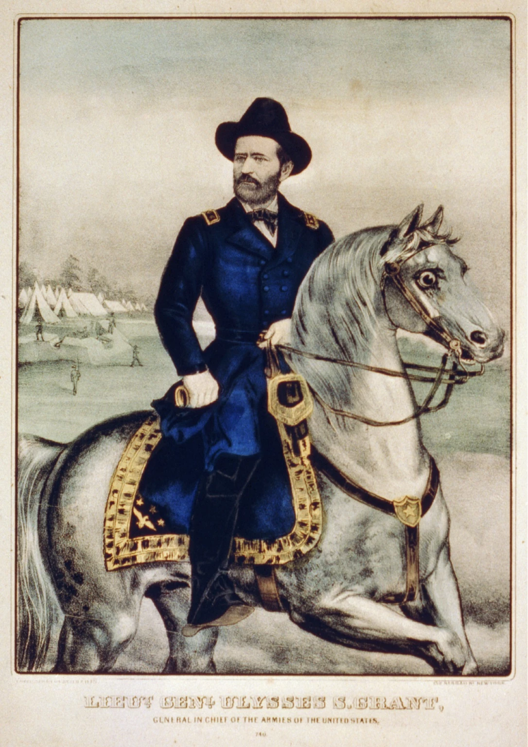 Lieut. Genl. Ulysses S. Grant: General in Chief of the armies of the United States